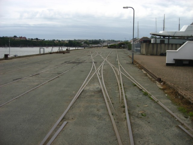 Disused railway at Brunel Quay Brunel Quay in Neyland, Pembrokeshire, looking towards Pembroke Dock. The old railways lines, a legacy of busier times when the Quay was the terminus for the GWR. Last train left in 1964.